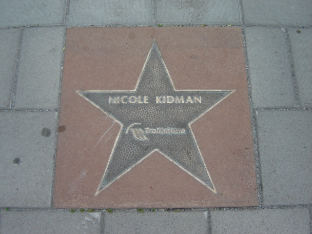 Picture taken on Trollhättan Walk of Fame